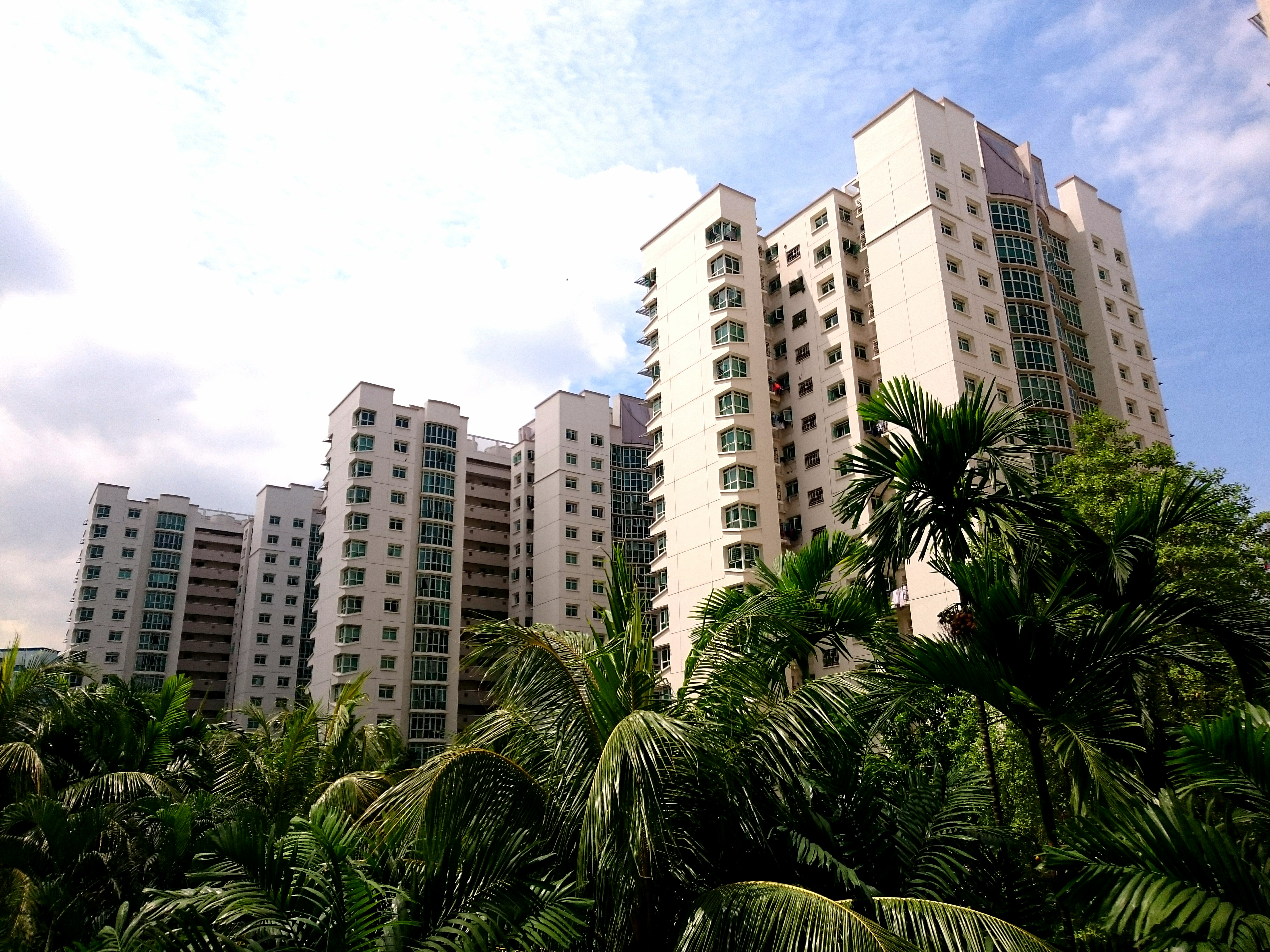 First HDB estate of Punggol 21, along Punggol Field Captured with Xperia Z3